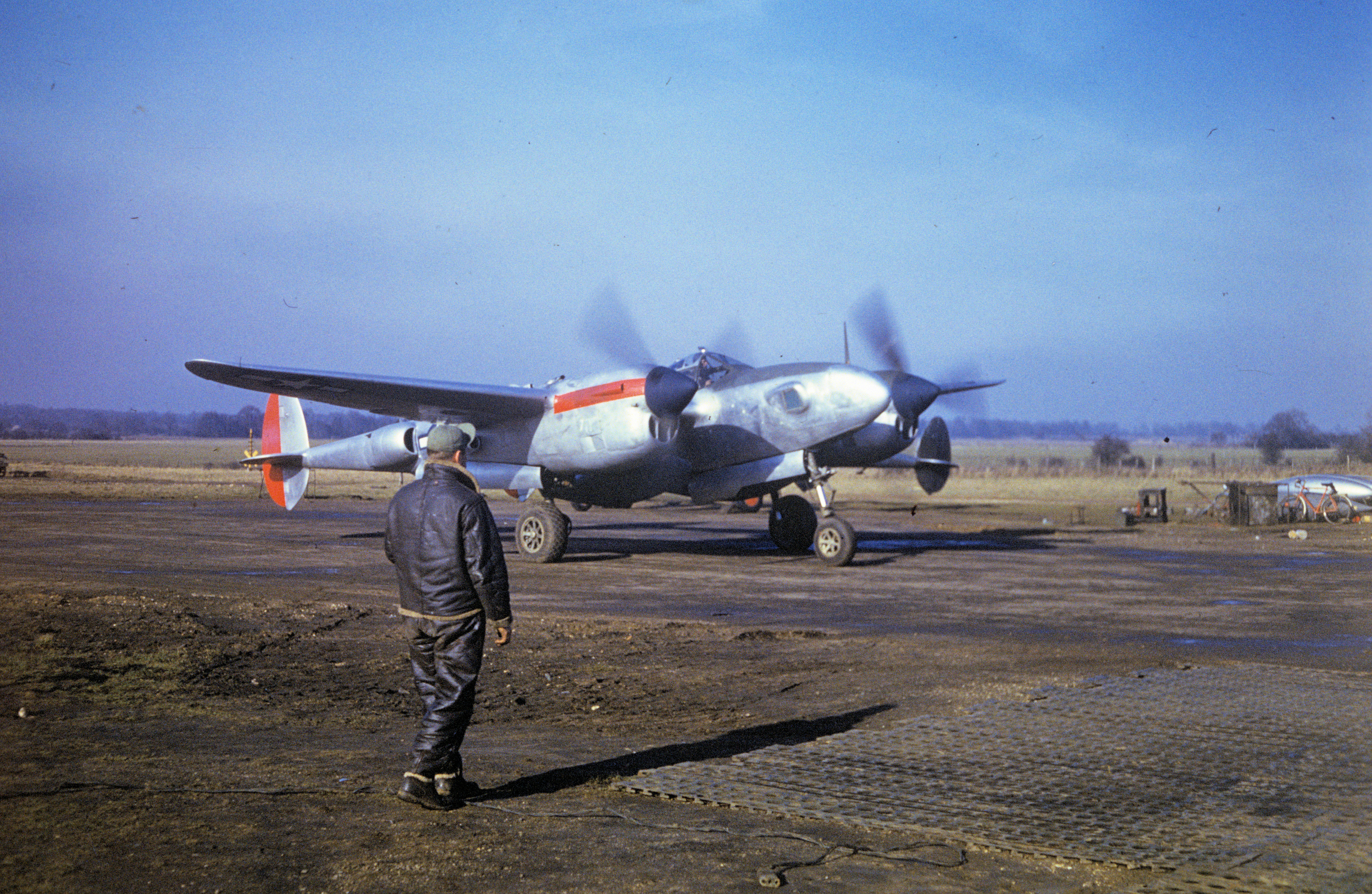 An F-5 Lightning of the 7th Photographic Reconnaissance Group